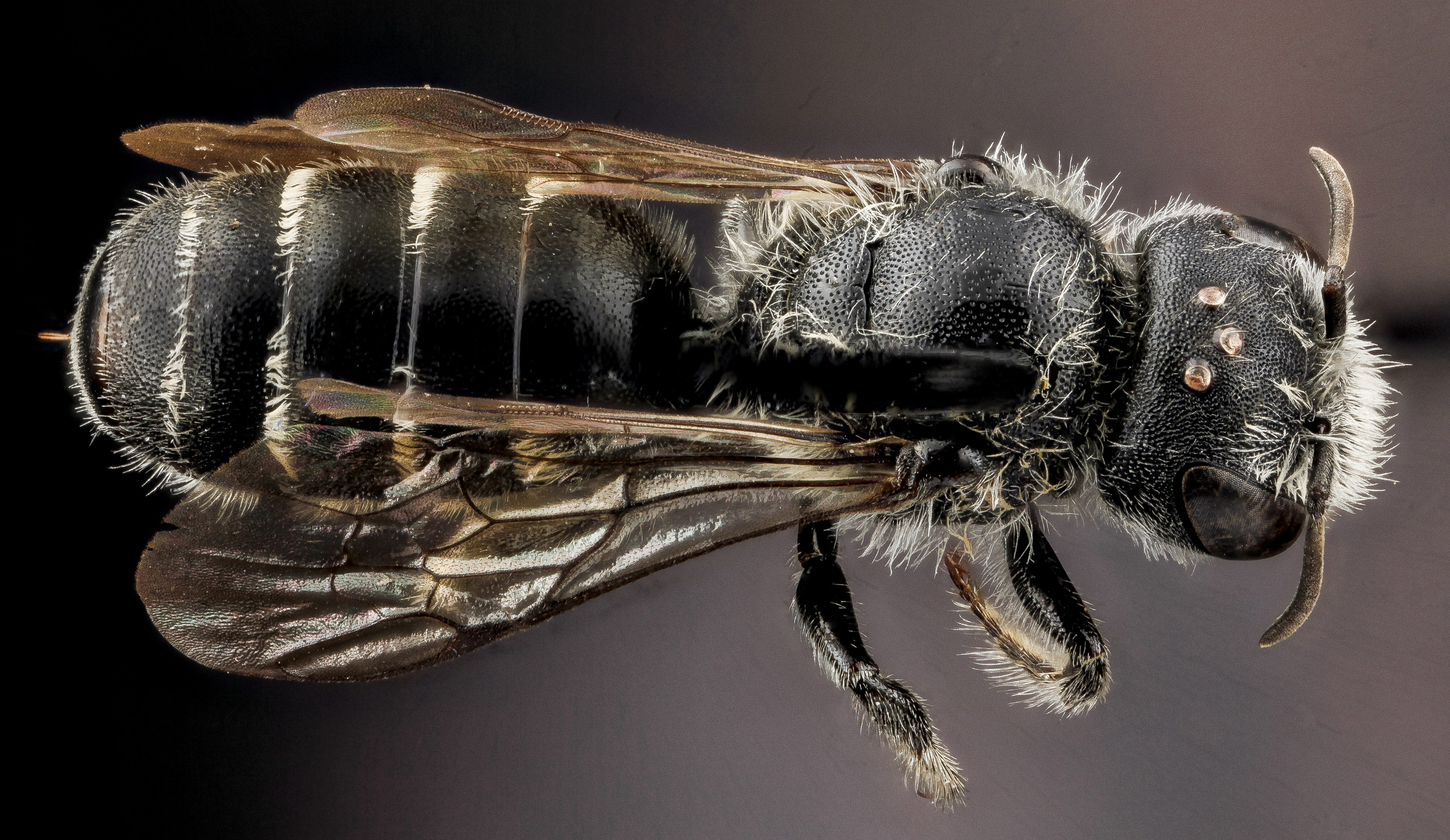 Hoplitis simplex, female. Prince George's County, Maryland.